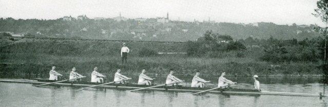 1892 Cornell University Varsity rowing team: F. W. Kelley, C. J. Barr, C. F. Wagner, W. S. Dole, A. W. Marston, G. P. Witherbee, E. G. Gilson, T. Hall, E. P. Allen